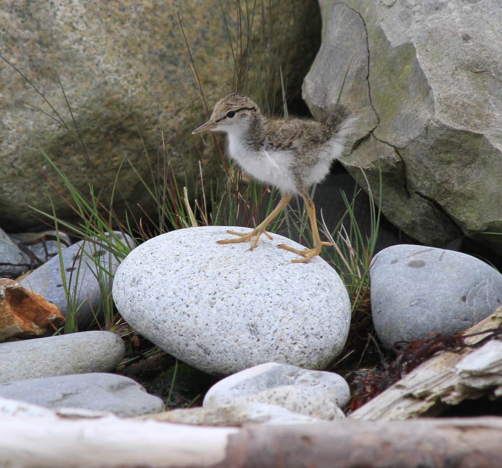 Spotted sandpiper chick photographed on Petit Manan Island, where seabird researchers monitor the breeding success of island birds. Photo: Brette Soucie, USFWS